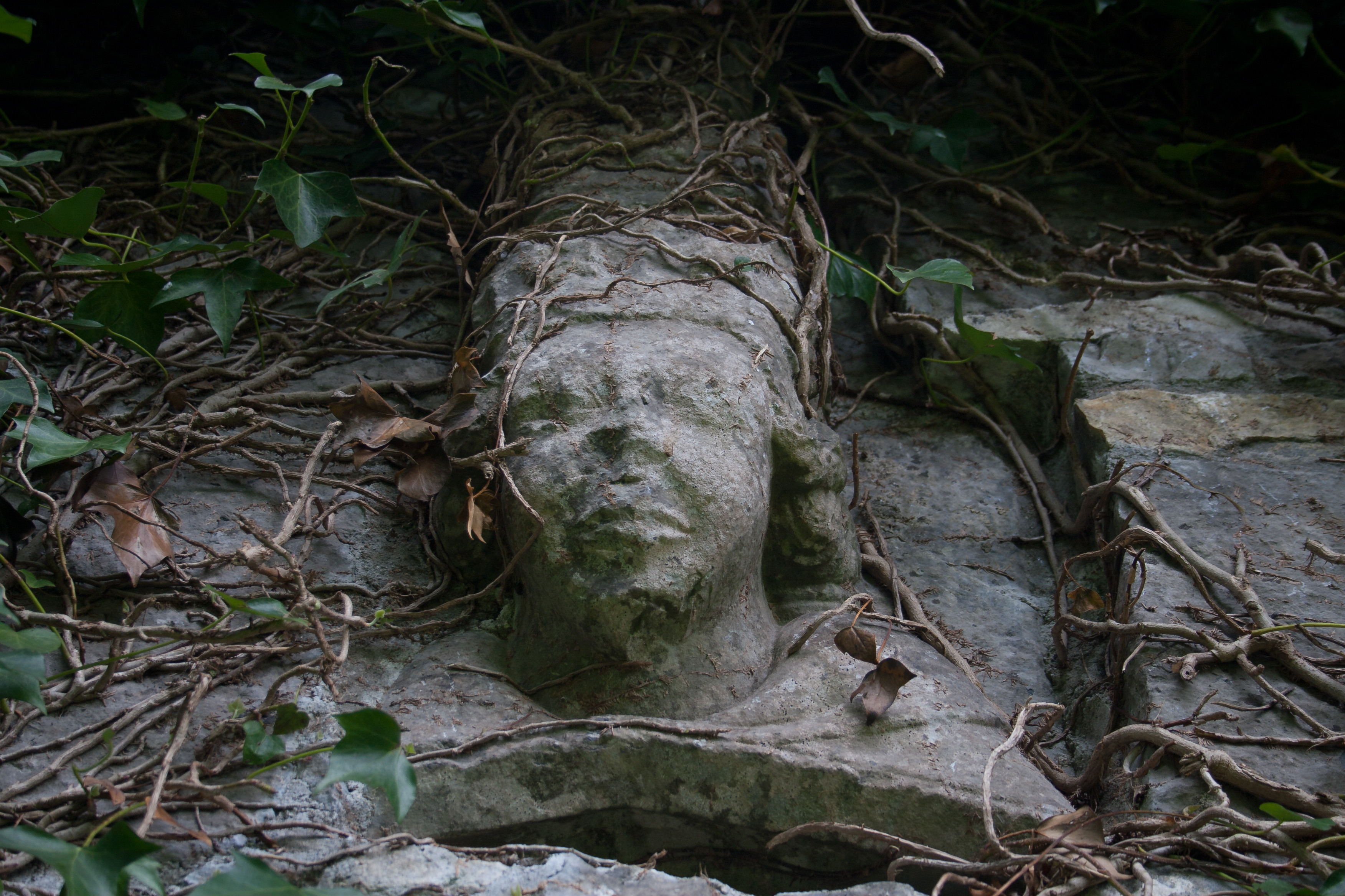 Limestone head above the doorway at the west gable of the friary. On top of the head (not to be seen in this photograph and, when this was taken, covered by ivy) is a three-tiered crown or tiara and a cross. (See plate 62 and entry 2668 in Ursula Egan et al: Archaeological Inventory of County Sligo, Volume I: South Sligo, 2005, ISBN 0-7557-1942-5.)